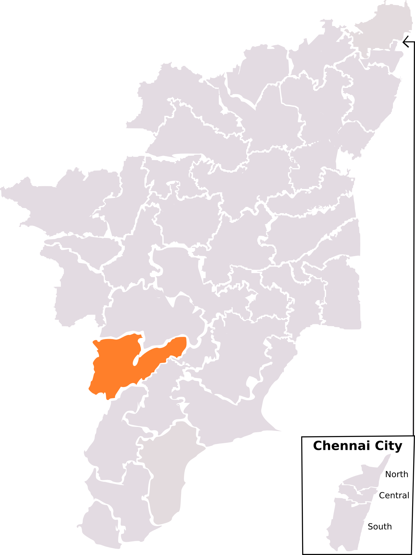 Lok Sabha Election map for Tamil Nadu. Map is drawn using Inkscape and is based on ECI website.